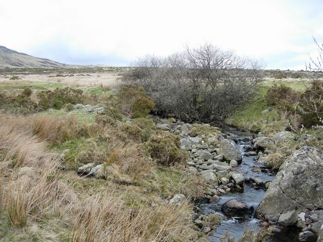 Afon Dulyn Flow is very low as most flow is diverted to Llyn Eigiau Reservoir through Dolgarrog hydroelectric power station.